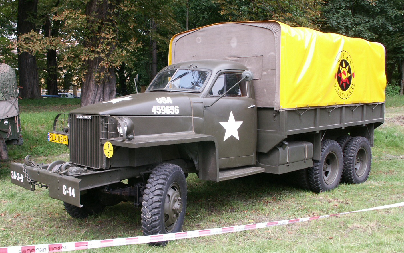 Studebaker US (US-6?) World War II military truck (mostly used by the USSR), at Łańcut, Poland.